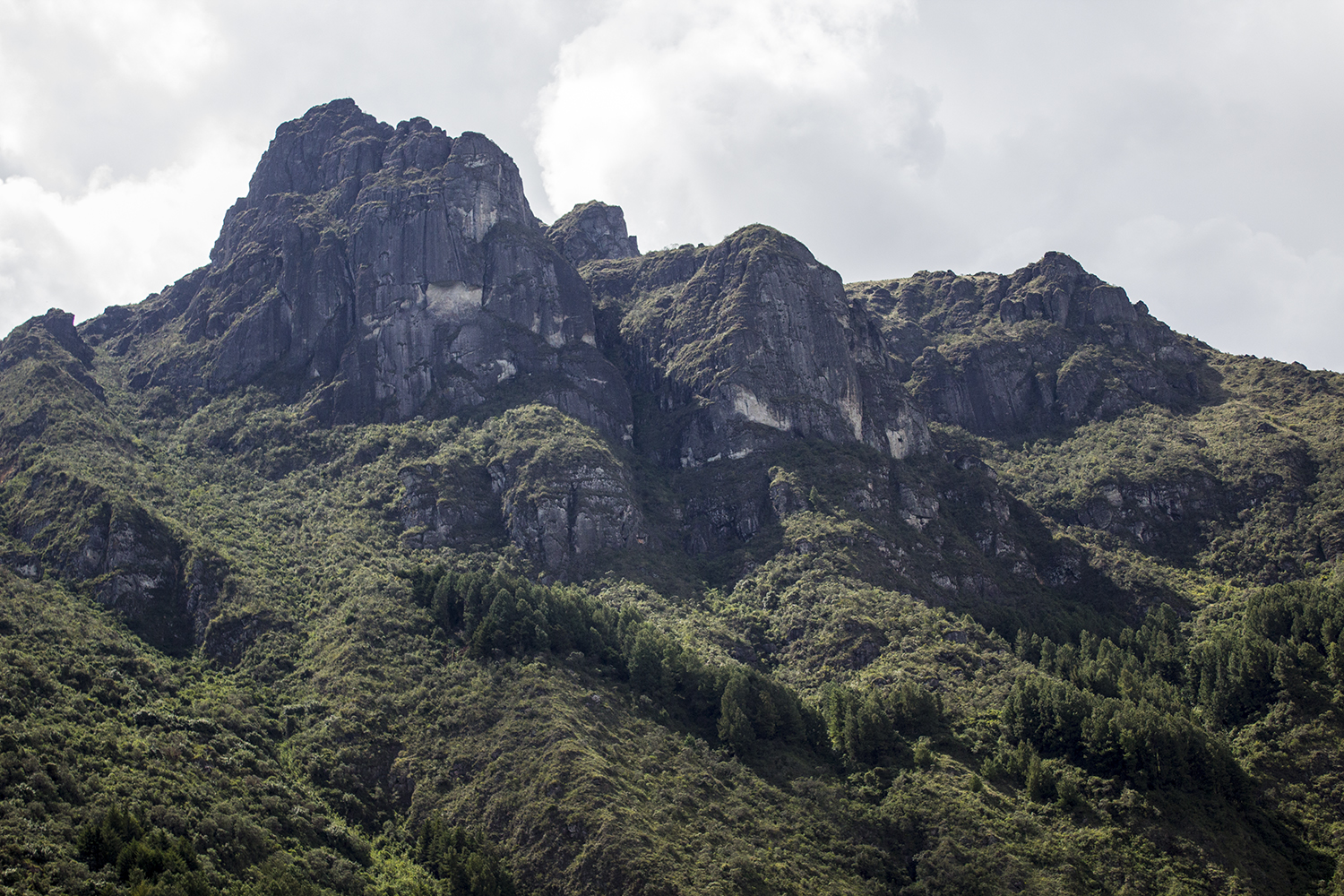 Cerro San Pablo, ubicado en la parte lateral derecha de la Laguna de Busa.